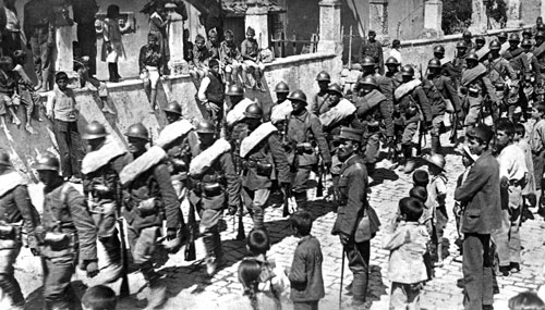 Greek occupation troops in AnatoliaTürkçe: Anadolu'da Yunan işgal birlikleri